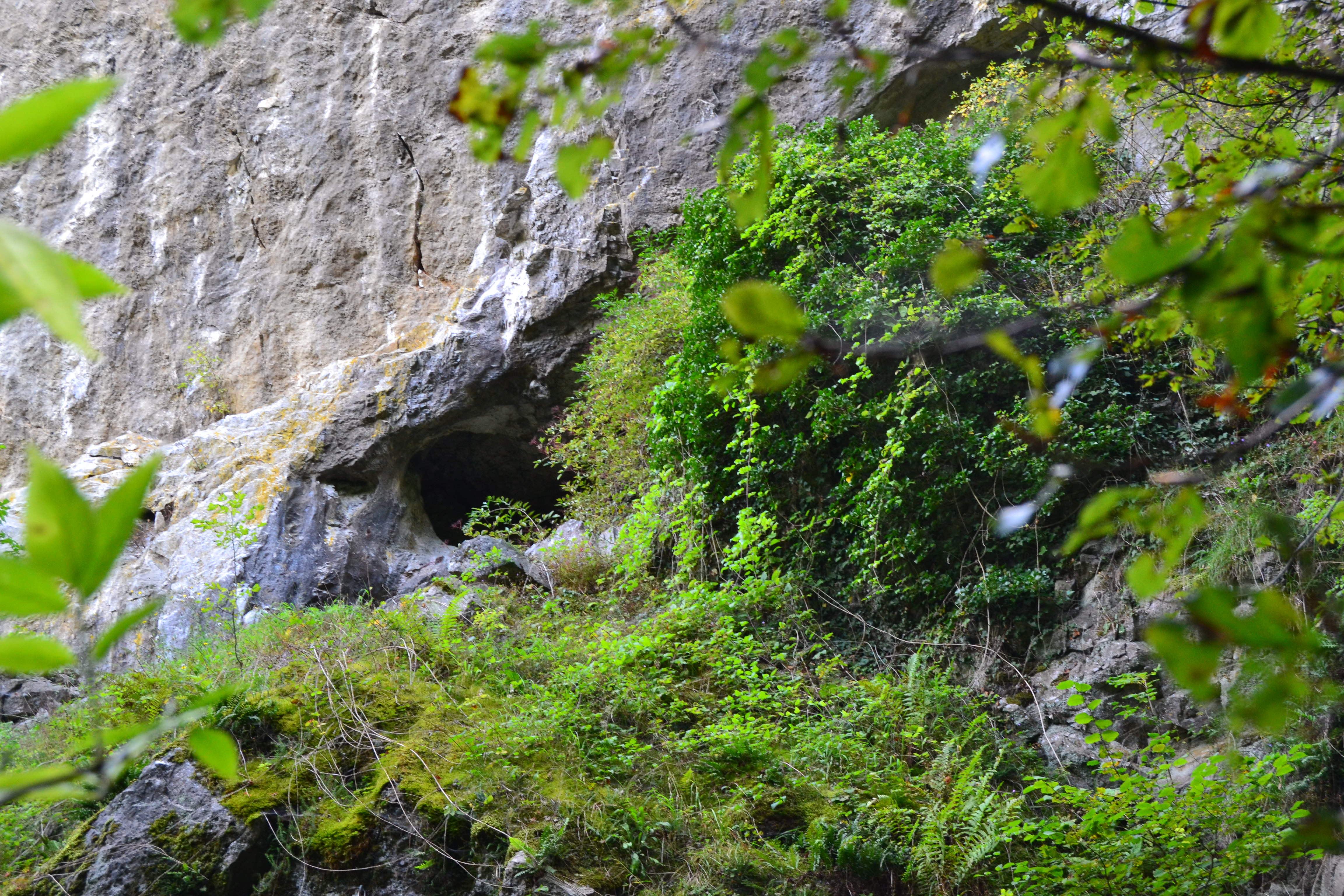 Upper Cave amongst the Schmerling Caves, place of the first discovered neandertalian remains by Philippe-Charles Schmerling in 1830 - Awirs, Flémalle / Engis, Liège, Belgium